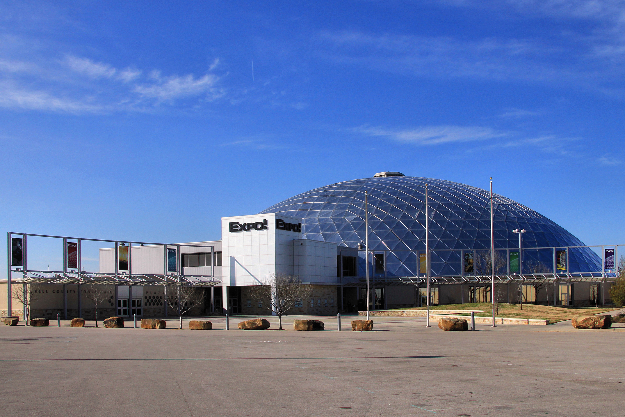 The Bell County Expo Center located in Bell County, Texas, United States. A new roof on the dome was installed in late 2013.